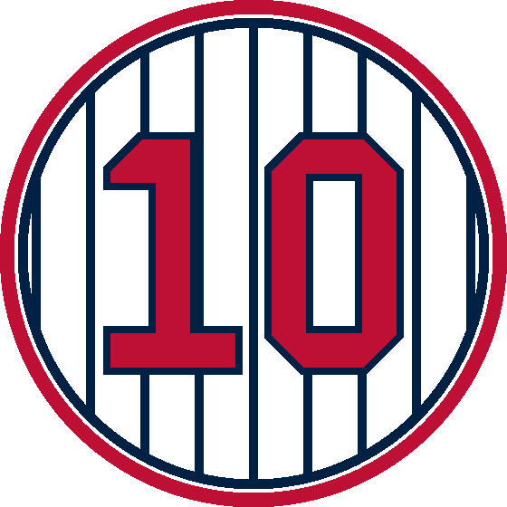 The number "10", retired for Tom Kelly by the Minnesota Twins.